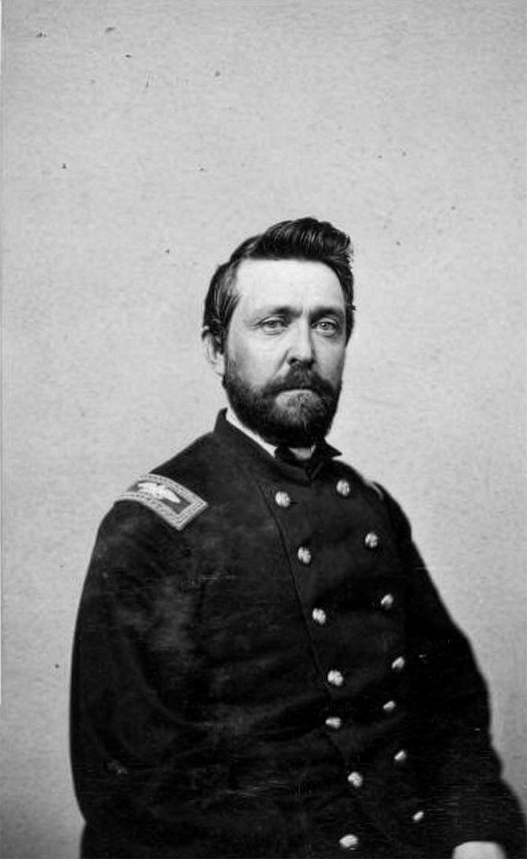 Brevet Brigadier General John Thomas Averill (1825-1889)